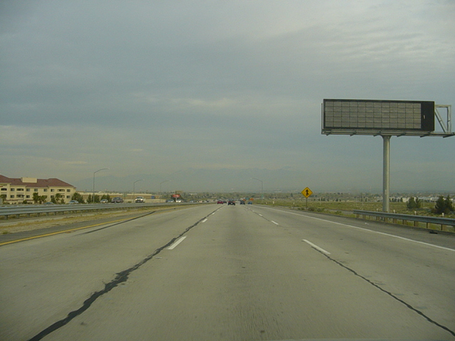 This picture was taken in the spring of 2005 by myself heading southbound on the Antelope Valley Freeway (CA-14) in downtown Palmdale.